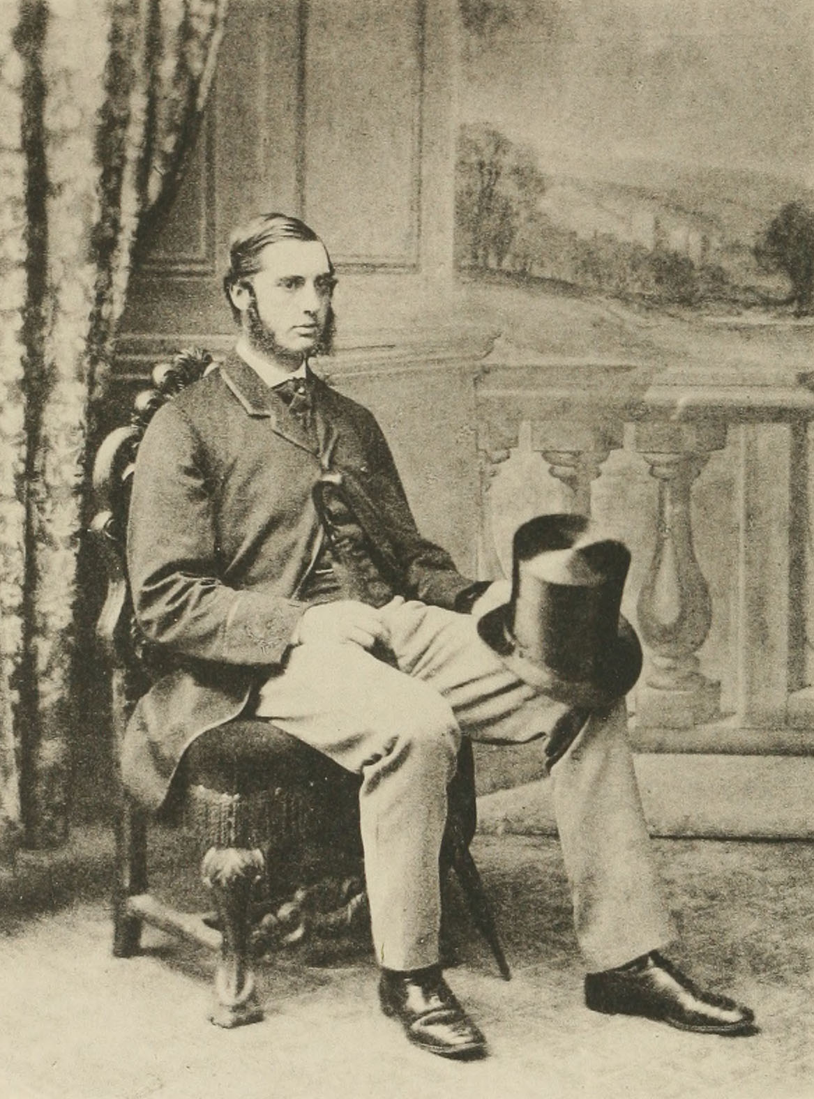 Frederick Ducane Godman as a young man. No date or photographer is given by the source. Godman was born in 1834. Photo appears to show a man of less than 50 years of age so that it would have been taken prior to 1884.